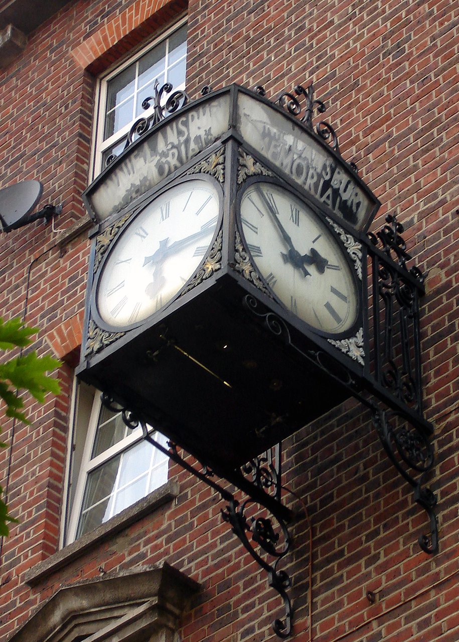 Description: Minnie Lansbury Memorial Clock Bow, London. Image taken and credited to Fin Fahey (2006)